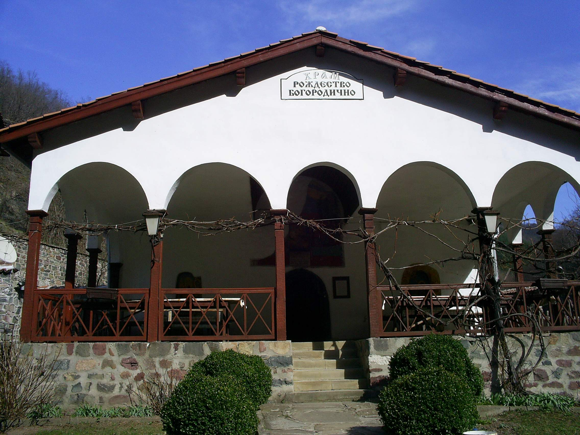 Monastery "The Seven Throns"; © 2006 Svilen Enev